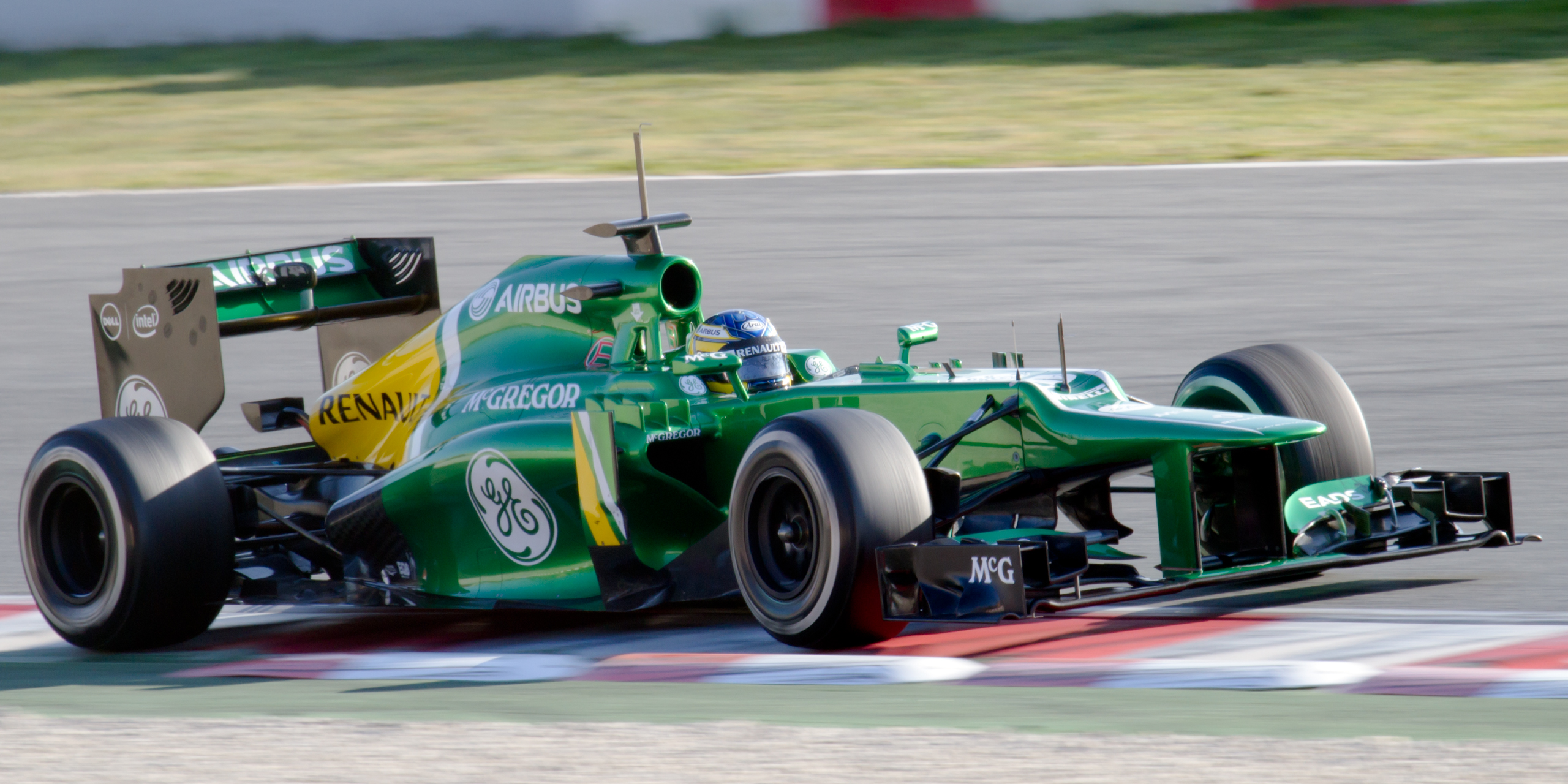 Formula One 2013 Catalonia test (19-22 February): Charles Pic (Caterham)